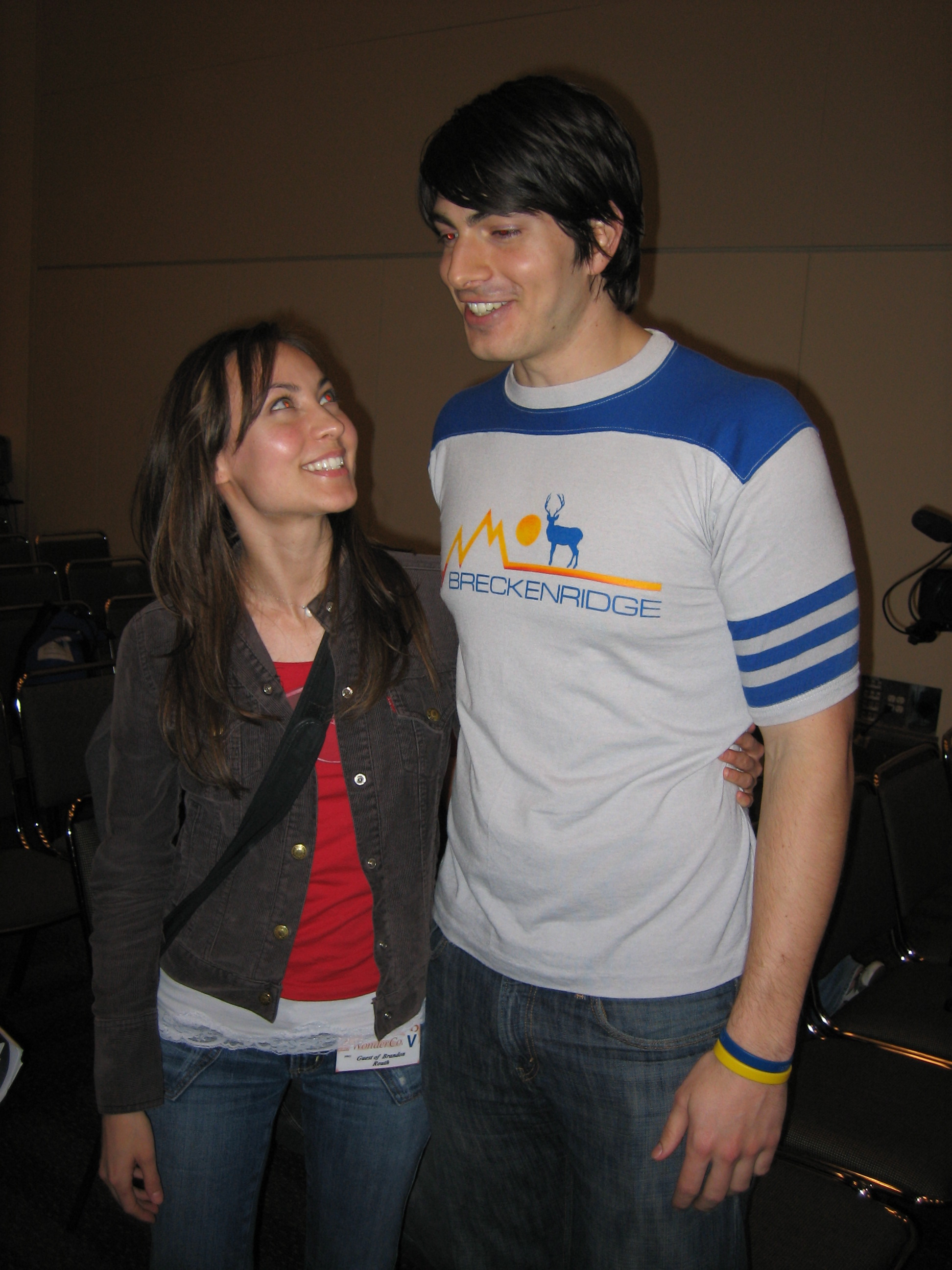 here is the thing...i buy that Routh had a girlfriend prior to being casted, and that these two kids got swept up in this entirely different world altogether...